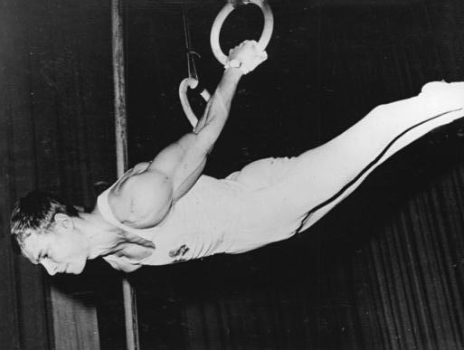 Factual corrections and alternative descriptions are encouraged separately from the original description. Additionally errors can be reported at this page to inform the Bundesarchiv. Original historic description: Günter Beier, Peter Weber Zentralbild Studré Kohls 5.9.1968 Berlin: DDR-Teilnehmer der XIX. Olympischen Sommerspiele vom 12. - 27.10.1968 in Mexiko-Stadt. Turnen - Männer: Oben: Günter Beier (ASK Vorwärts Potsdam). Unten: Peter Weber (ASK Vorwärts Potsdam).